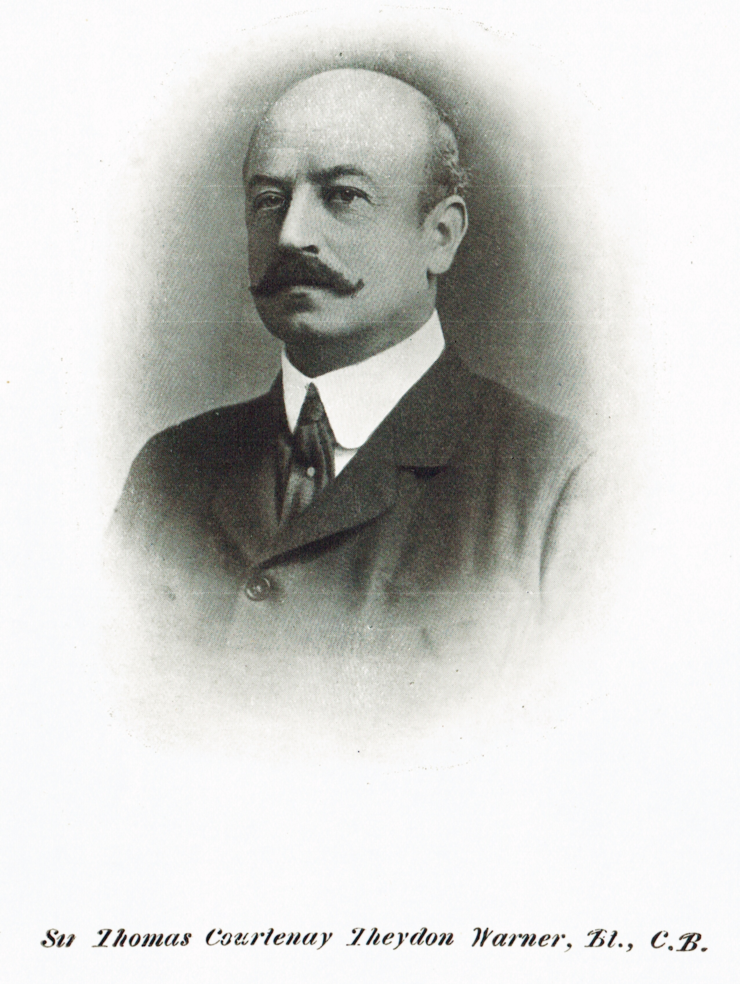 Portrait of Sir Thomas Courtenay Theydon Warner (1857-1934), Baronet, Companion of the Order of the Bath, Lord Lieutenant and Custos Rotulorum of Suffolk, from the book 'Suffolk Leaders: Social and Political' by Ernest Gaskell [usually spelled Gaskill in official records (1868-1928)] published for private circulation [late 1911 or early 1912] by the Queenhithe Printing and Publishing Co. Ltd, 13 Bread Street Hill, Queen Victoria Street, London E.C.